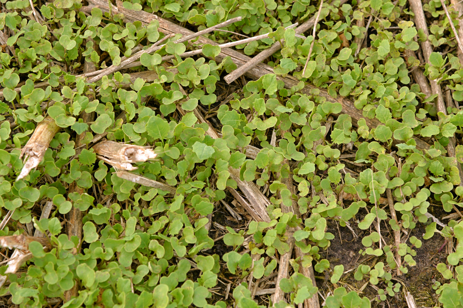 Brassica napus, young plants from seedloss